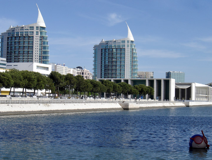 This is a picture of the modern area of the city of Lisbon